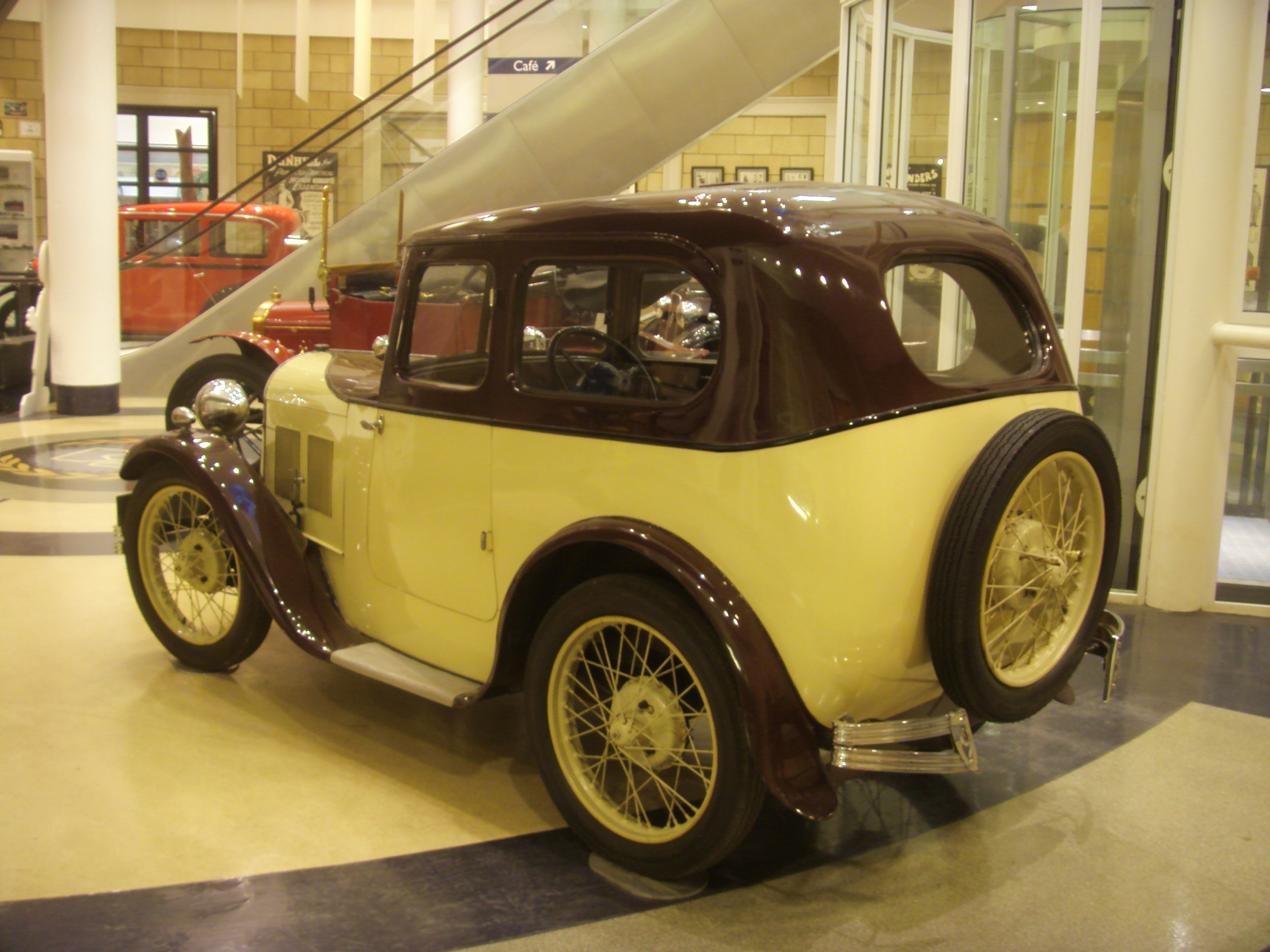 How cute!